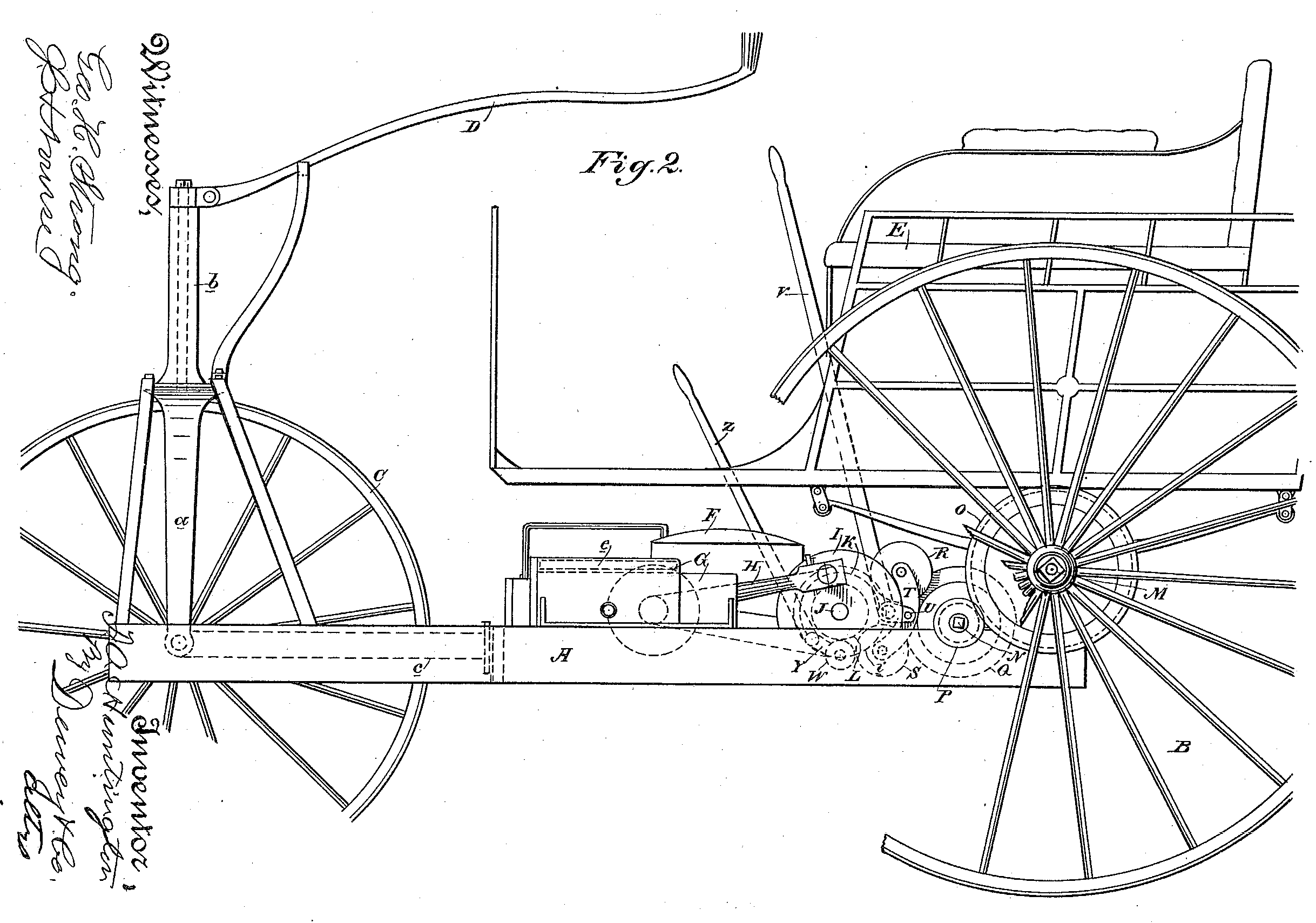 Excerpt from diagram of 411,196 for "Vehicle" by F. A. Huntington